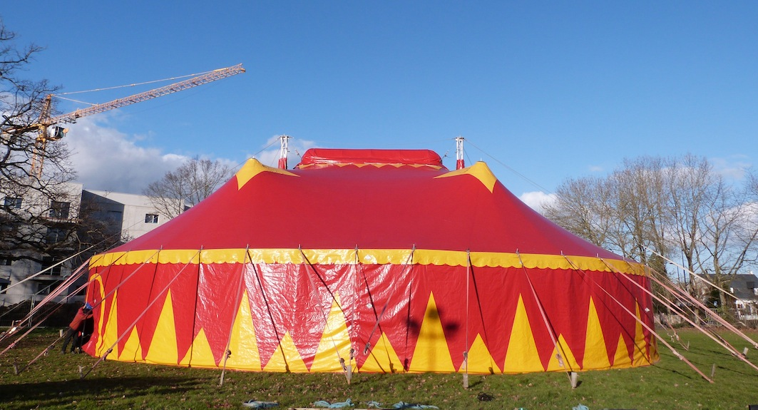 Big Top 17meters x 22m meters